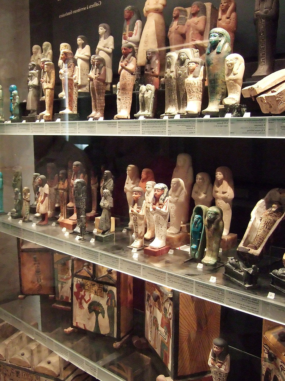 this is a flipped image of Image:Egyptian funerary figurines louvre.jpg, which is made available by CC-BY-SA 2.5. I need the flipped image for an article on the English wikipedia